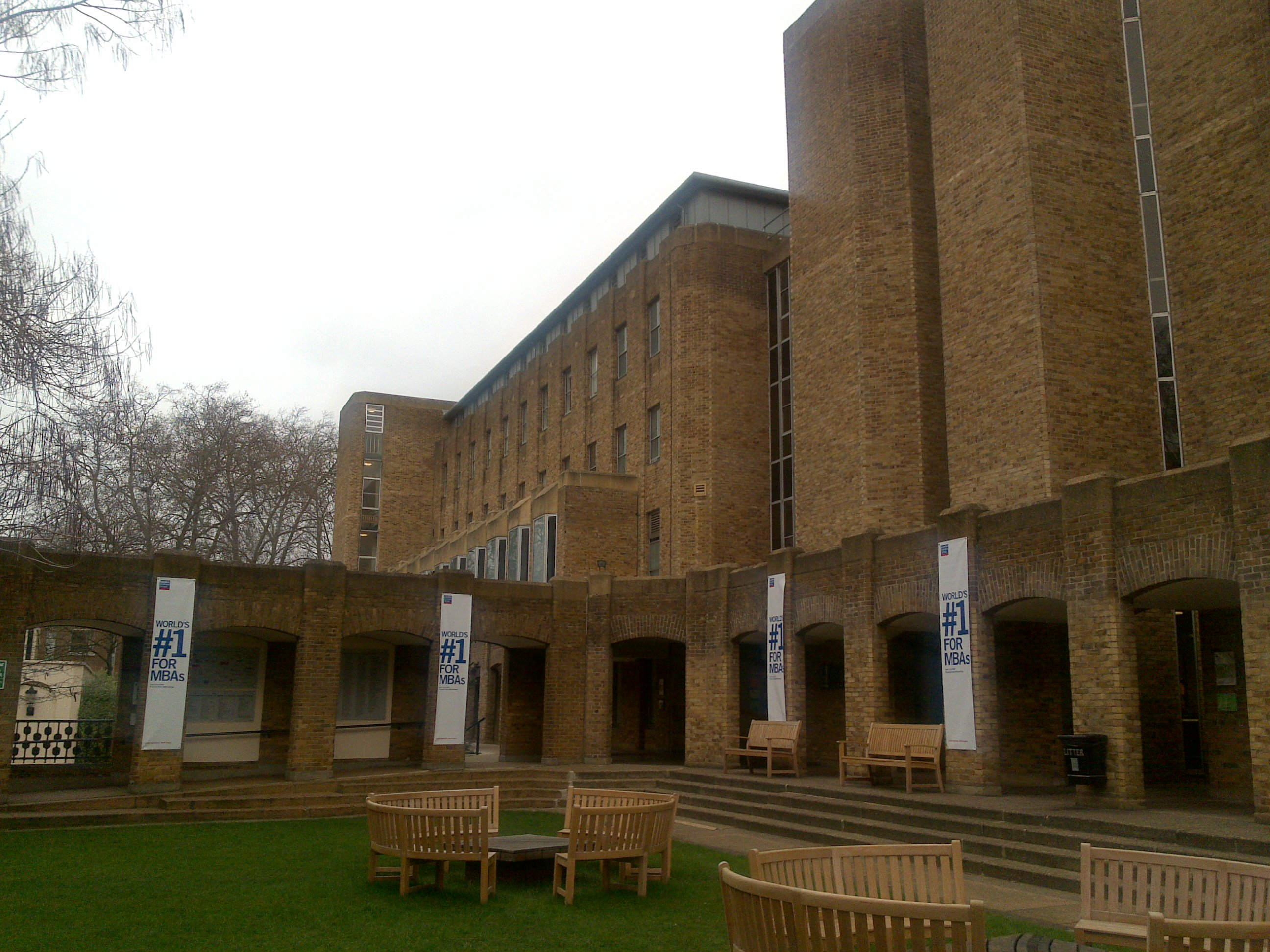 London Business School, UK